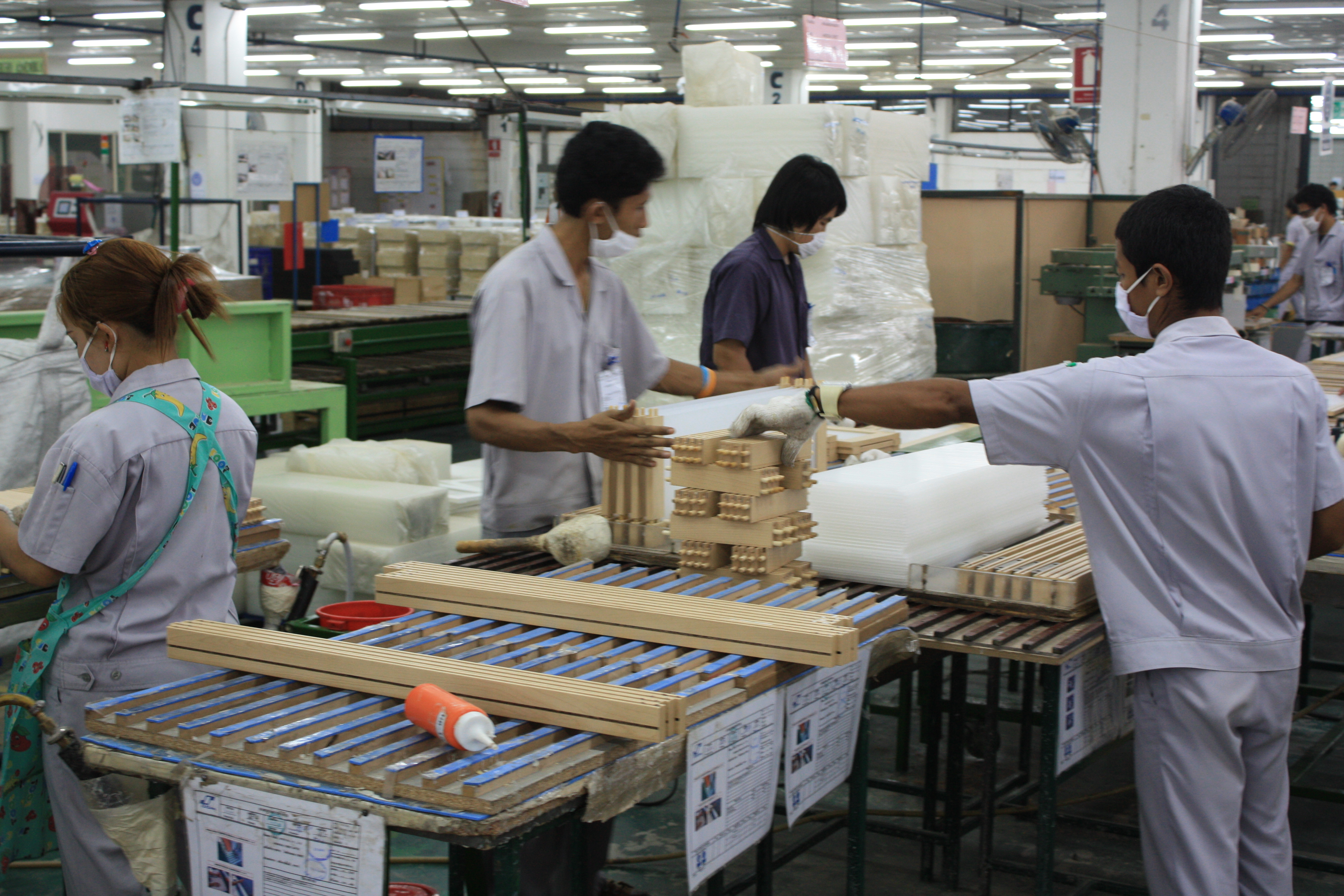 A typical factory in Chachoengsao.